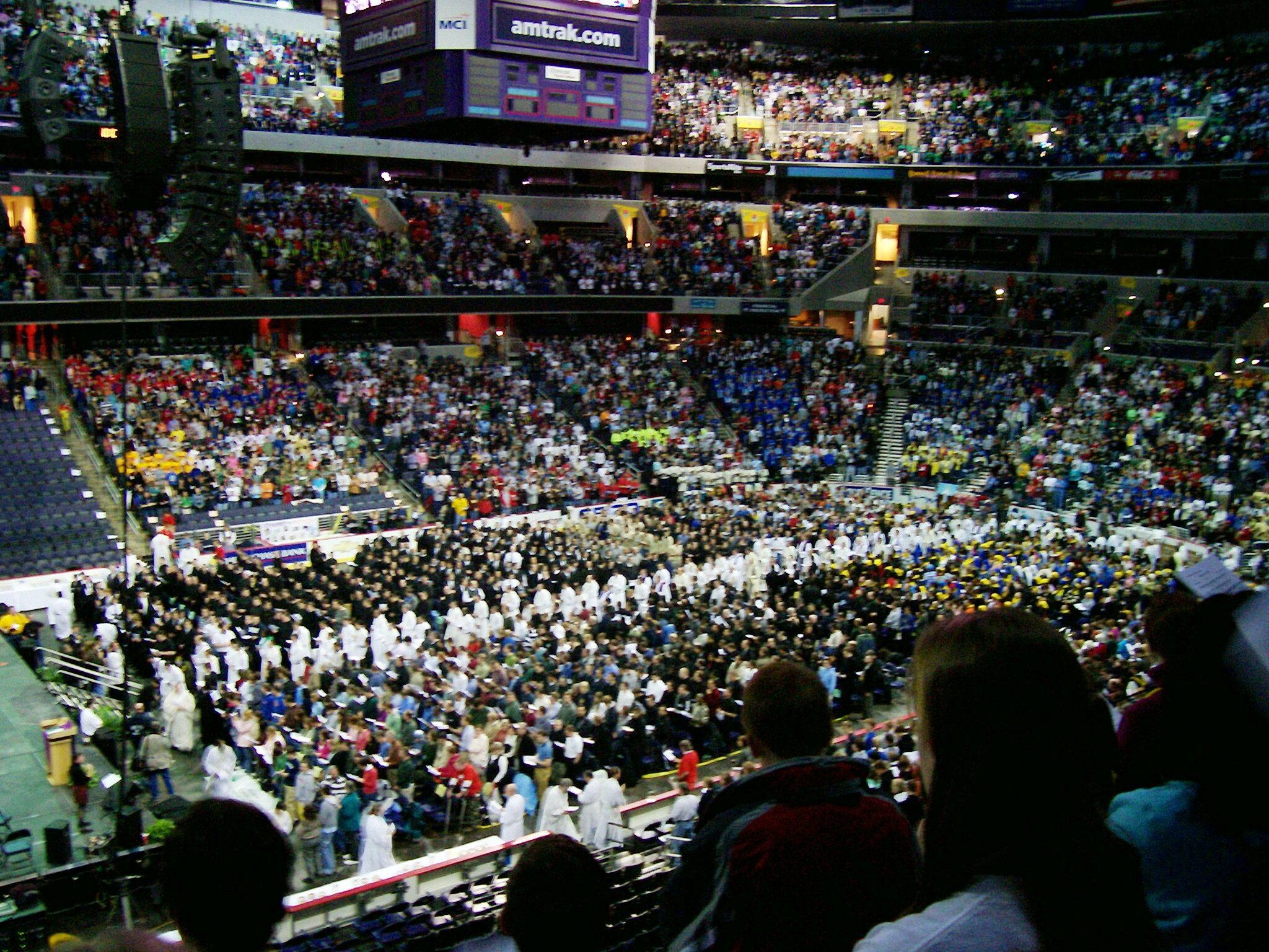 Youth rally and mass at the Verizon Center. January 23, 2006.